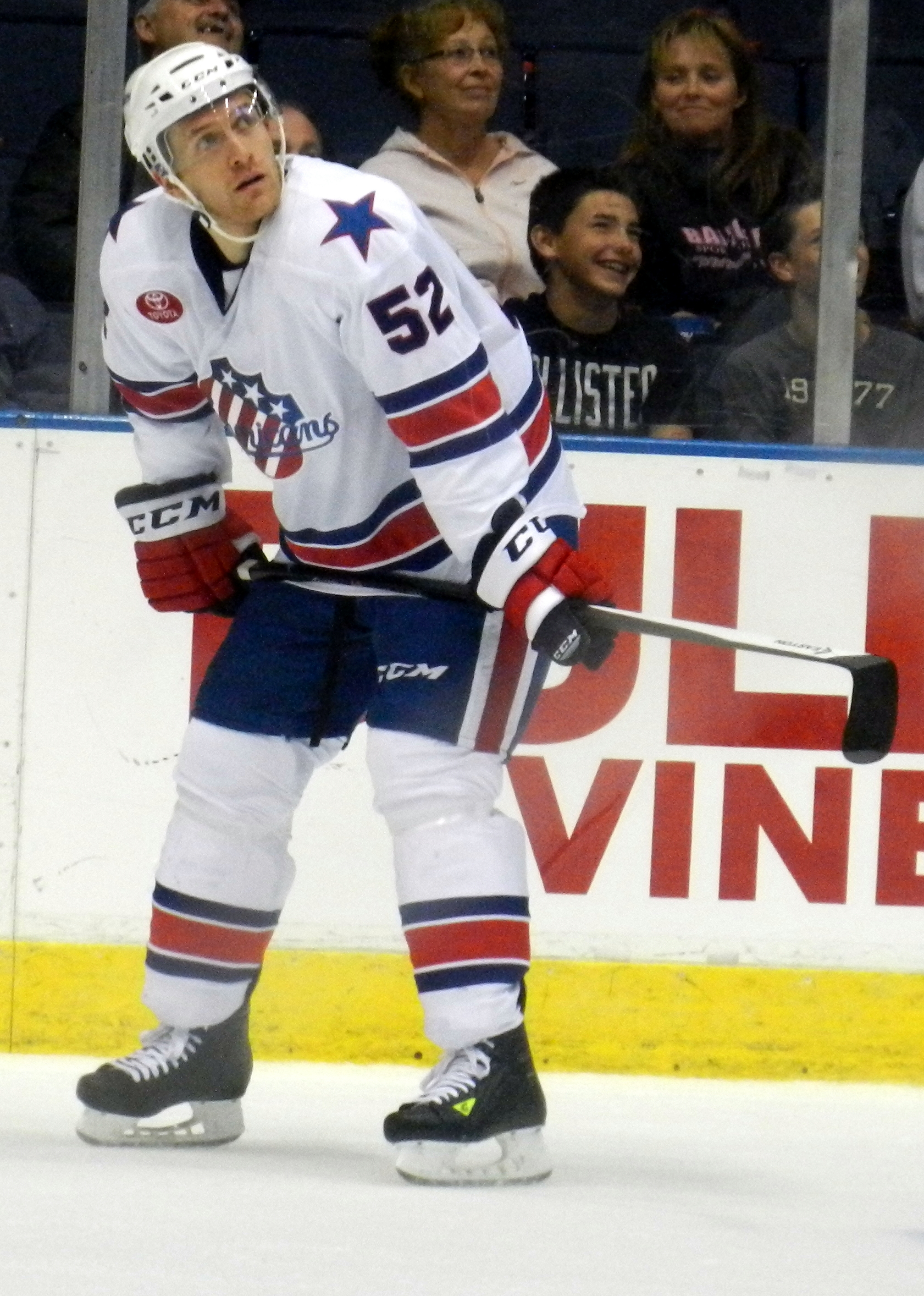 Alexander Sulzer playing for the Rochester Americans during the 2013-14 AHL season